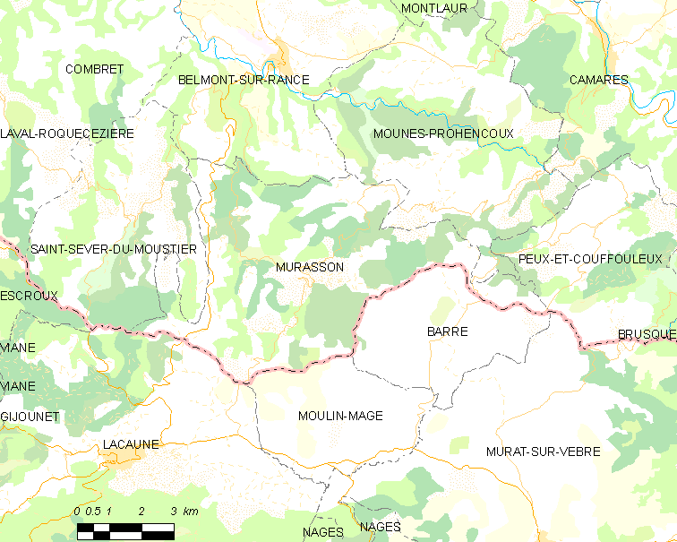 Map commune FR insee code 12163.png - Murasson